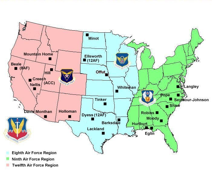 Map of Air Combat Command CONUS regions and bases